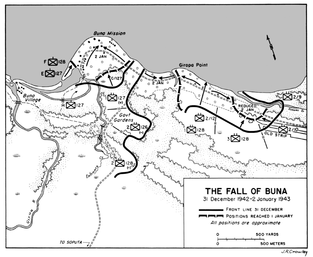 USA-P-Papua-15 Map 15 Buna station milner 31 December 1942-2 January 1943